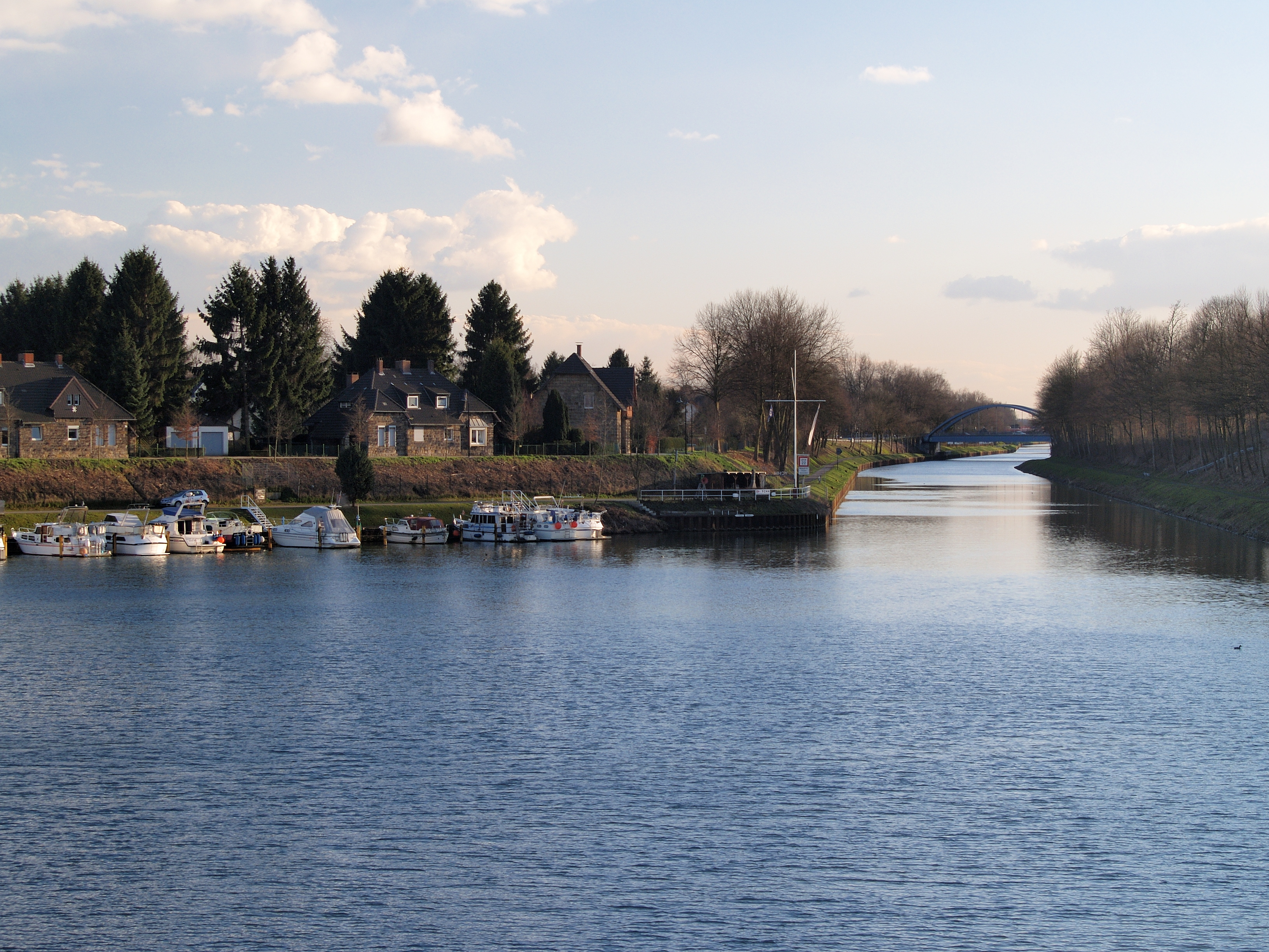 The connection of Rhein-Herne-Kanal and Dortmund-Ems-Kanal at the lower port of the boat lift at Henrichenburg/Waltrop Germany